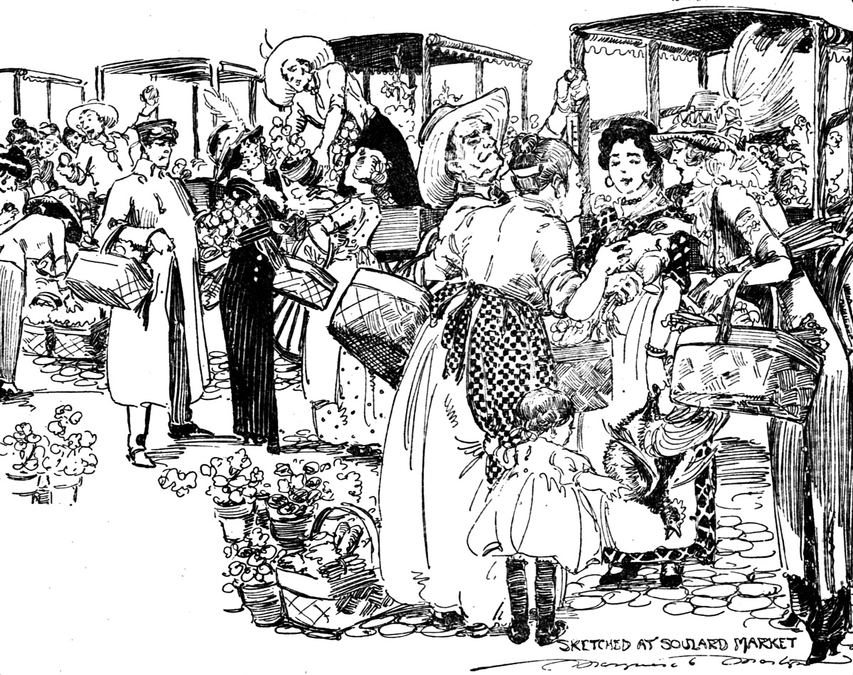 Drawing by Marguerite Martyn of Soulard Market, St. Louis, in 1912, showing shoppers bargaining with merchants, women comparing notes, a uniformed chauffeur holding a basket, a child, and various items being sold or bought.